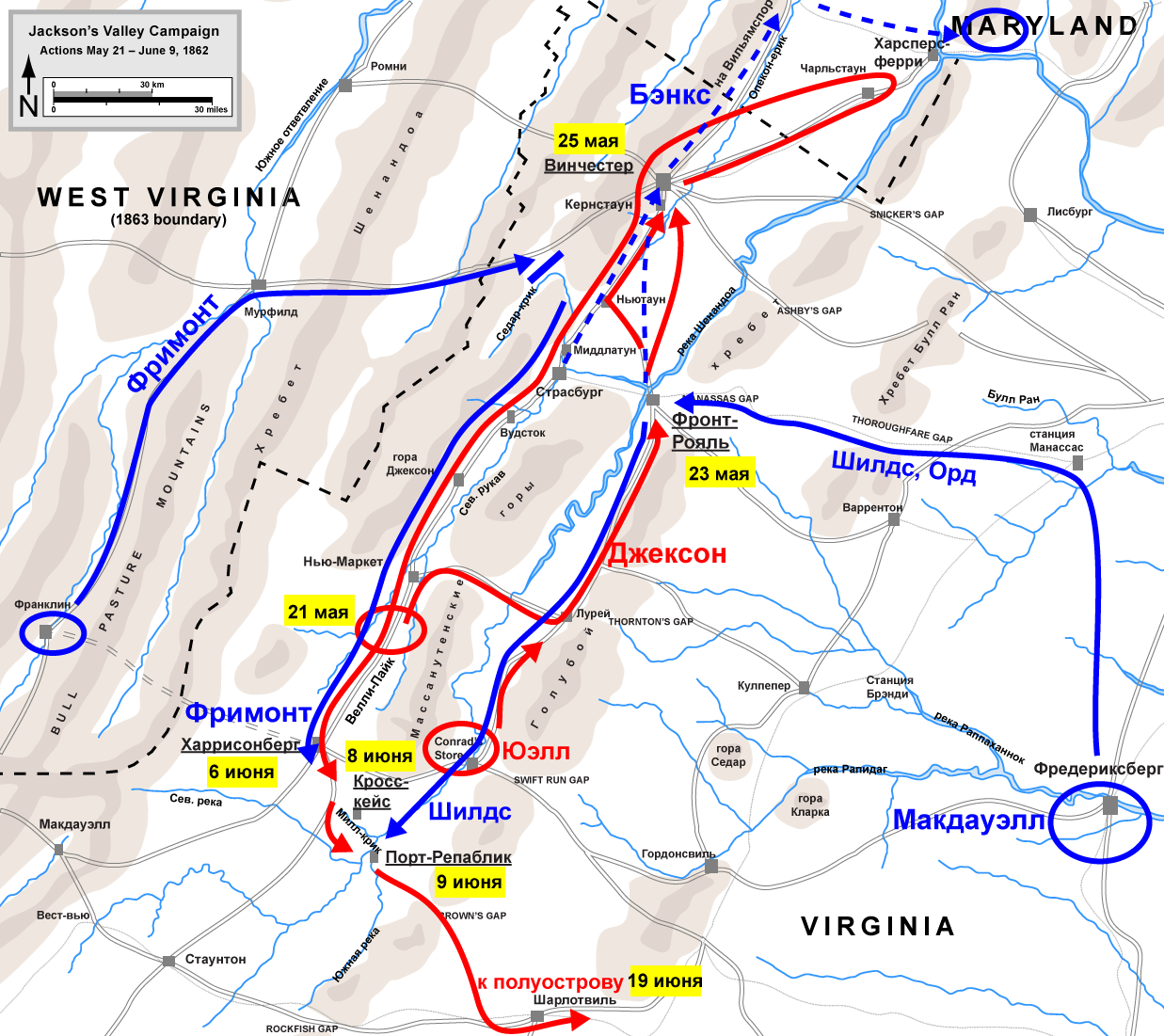 Map of Stonewall Jackson's Valley Campaign, Part 2 of 2, russian version